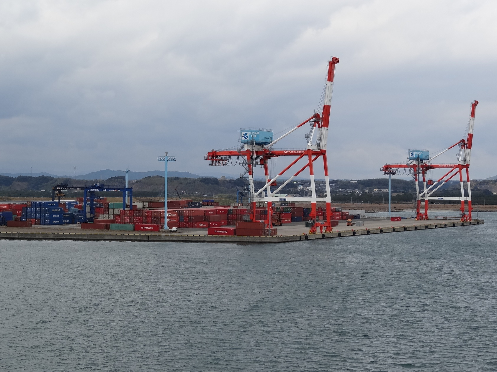 The Port of Shibushi - Shin-Wakahama Area in Shibushi City, Kagoshima Prefecture, Japan